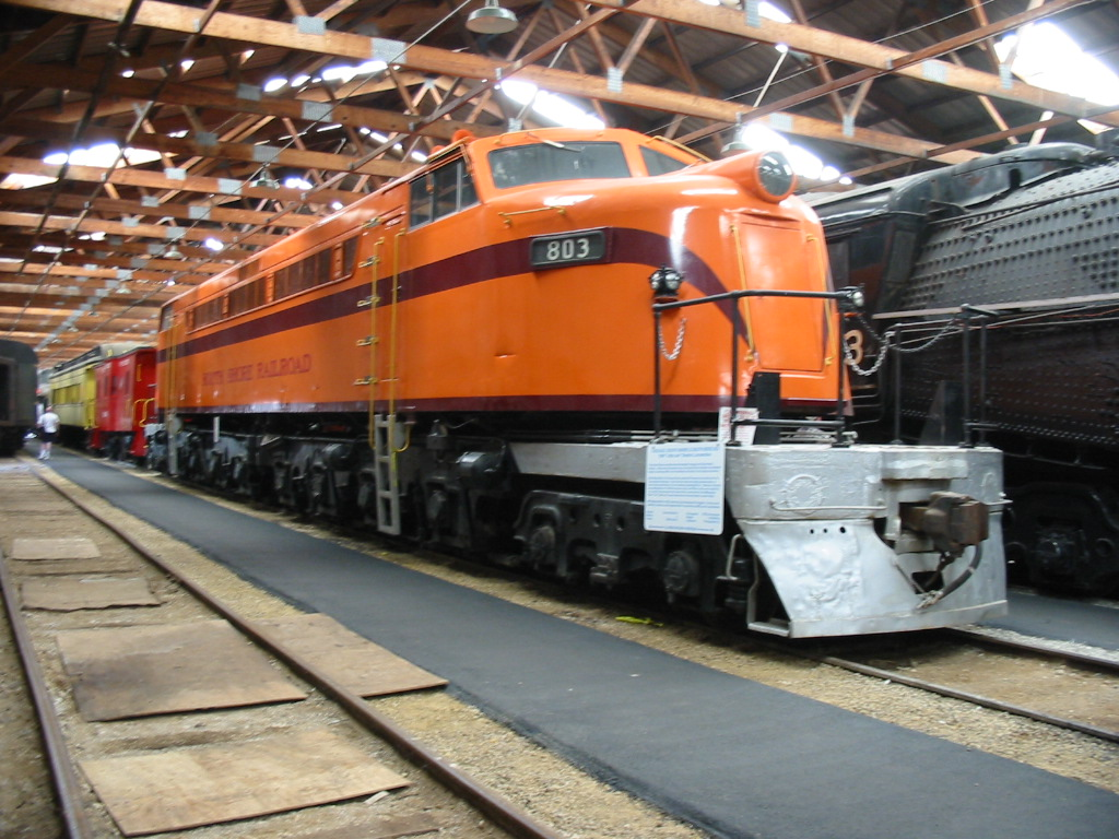 A Chicago, South Shore and South Bend Railroad Little Joe preserved at the Illinois Railway Museum Photo by Sean Lamb (User:Slambo), June 18 en:2004